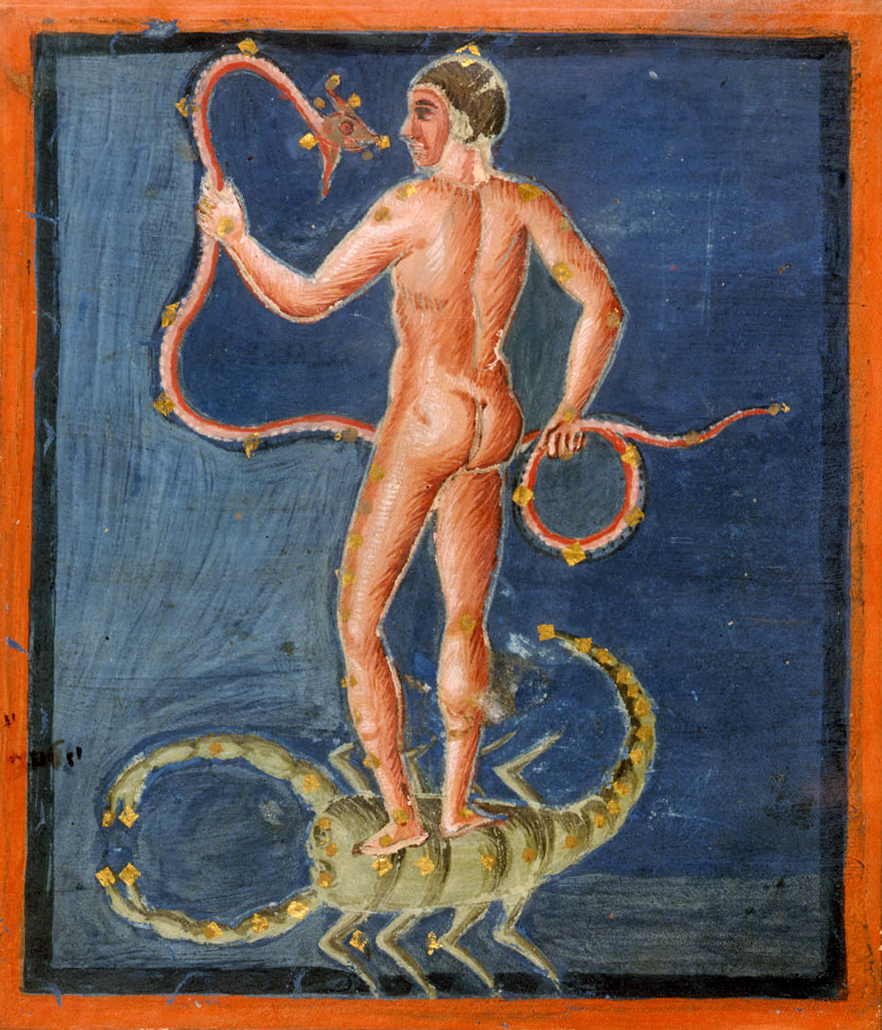 Fol. 10v Ophiuchus, Serpens and Scorpius